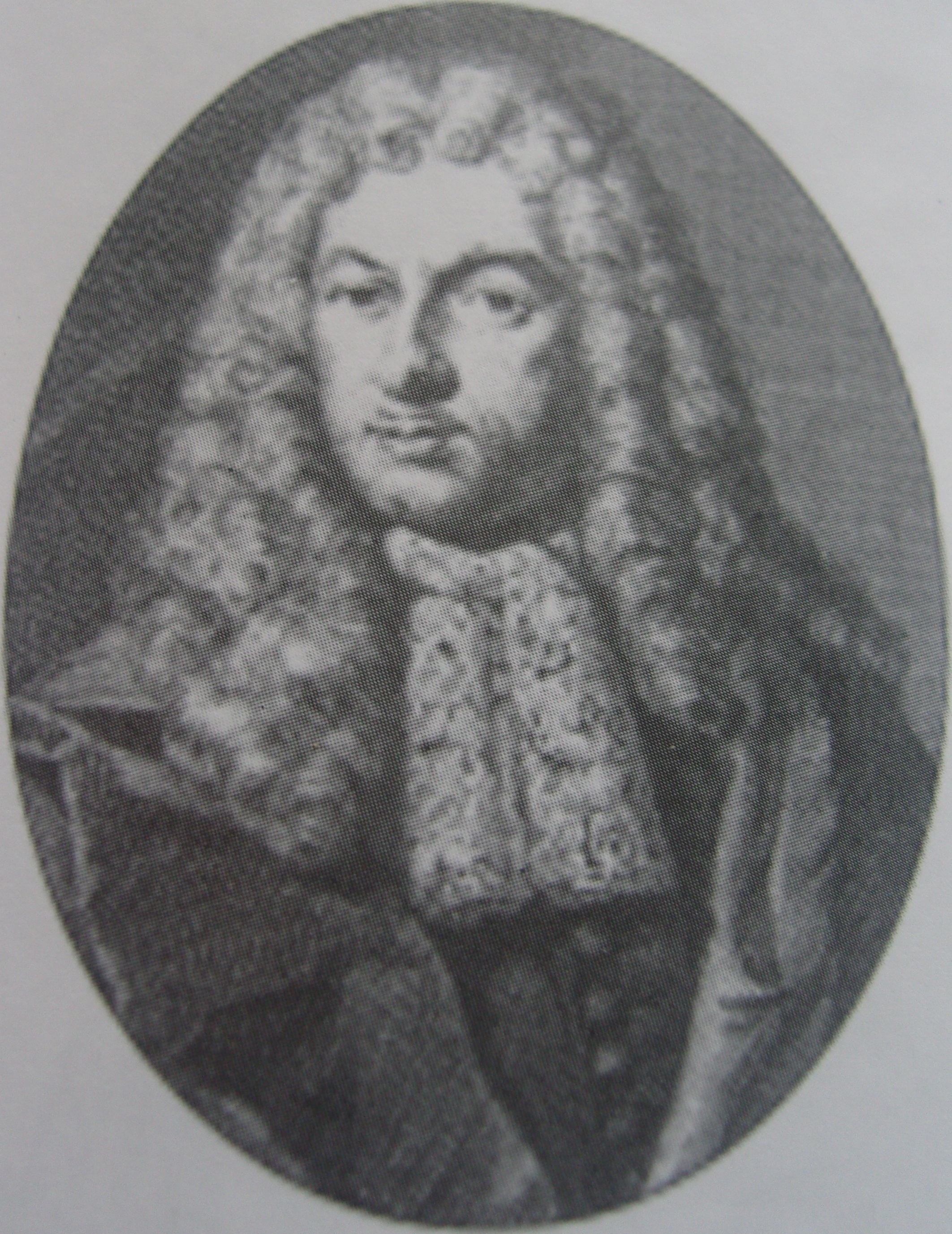 Nikolaas Witsen